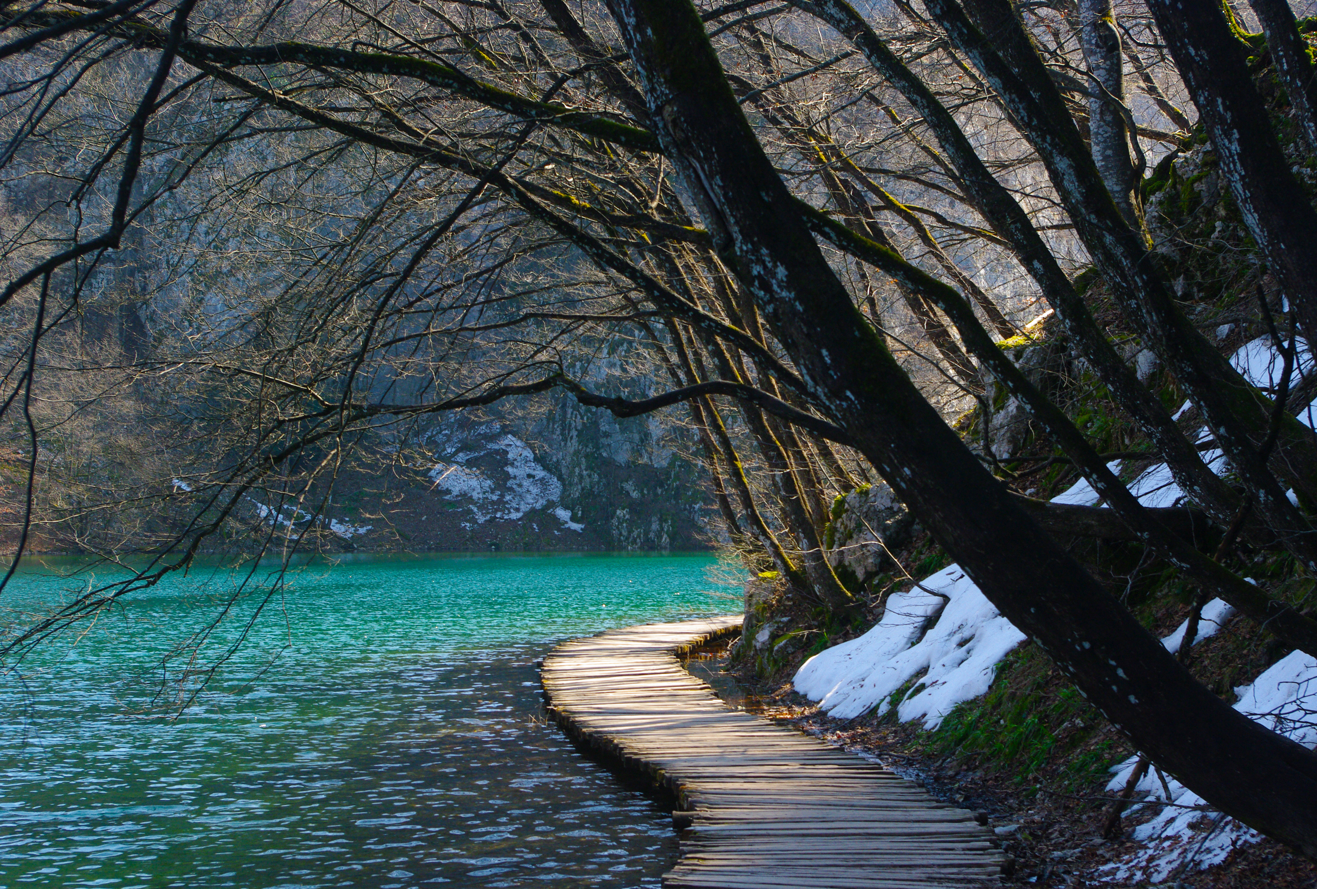 National park Plitvice Lakes.